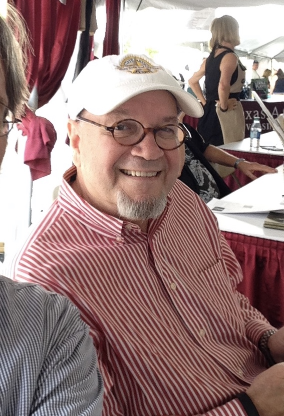 Poet Dave Parsons at the Texas Book Festival, Austin, Texas, October, 2016